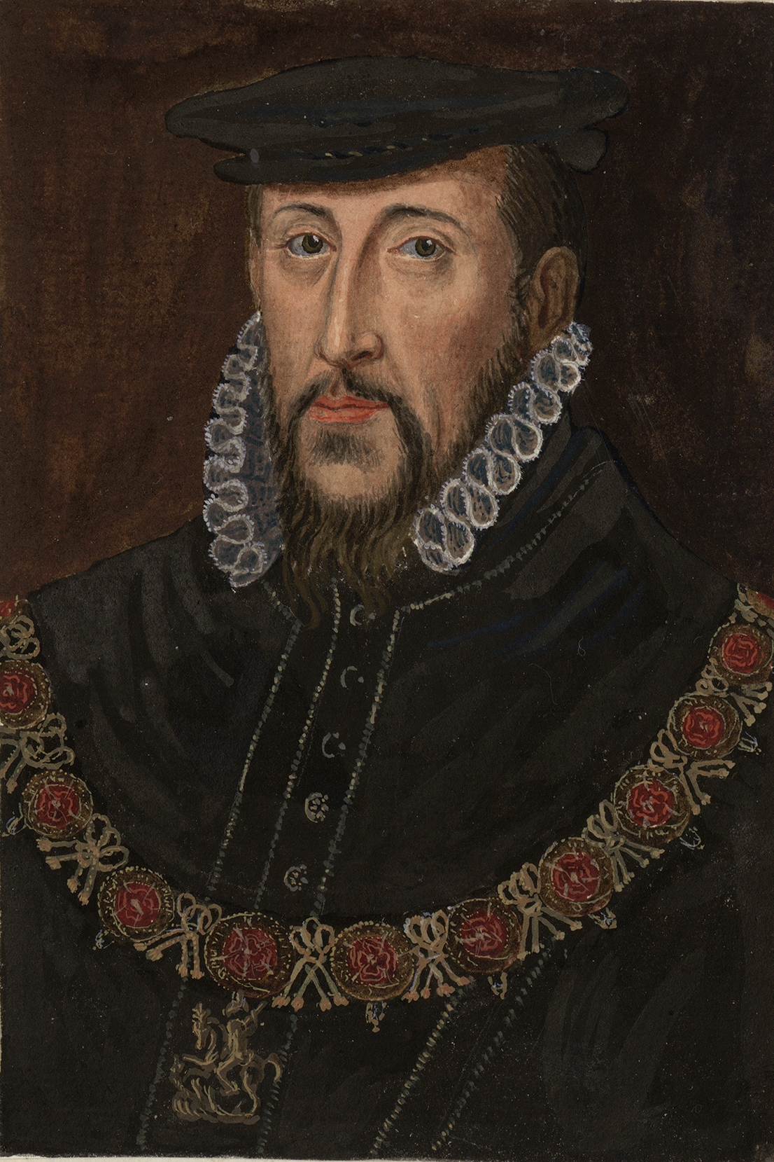 An image from a set of 8 extra-illustrated volumes of A tour in Wales by Thomas Pennant (1726-1798) that chronicle the three journeys he made through Wales between 1773 and 1776. These volumes are unique because they were compiled for Pennant's own library at Downing. This edition was produced in 1781. The volumes include a number of original drawings by Moses Griffiths, Ingleby and other well known artists of the period. Thomas Pennant (1726-1798)